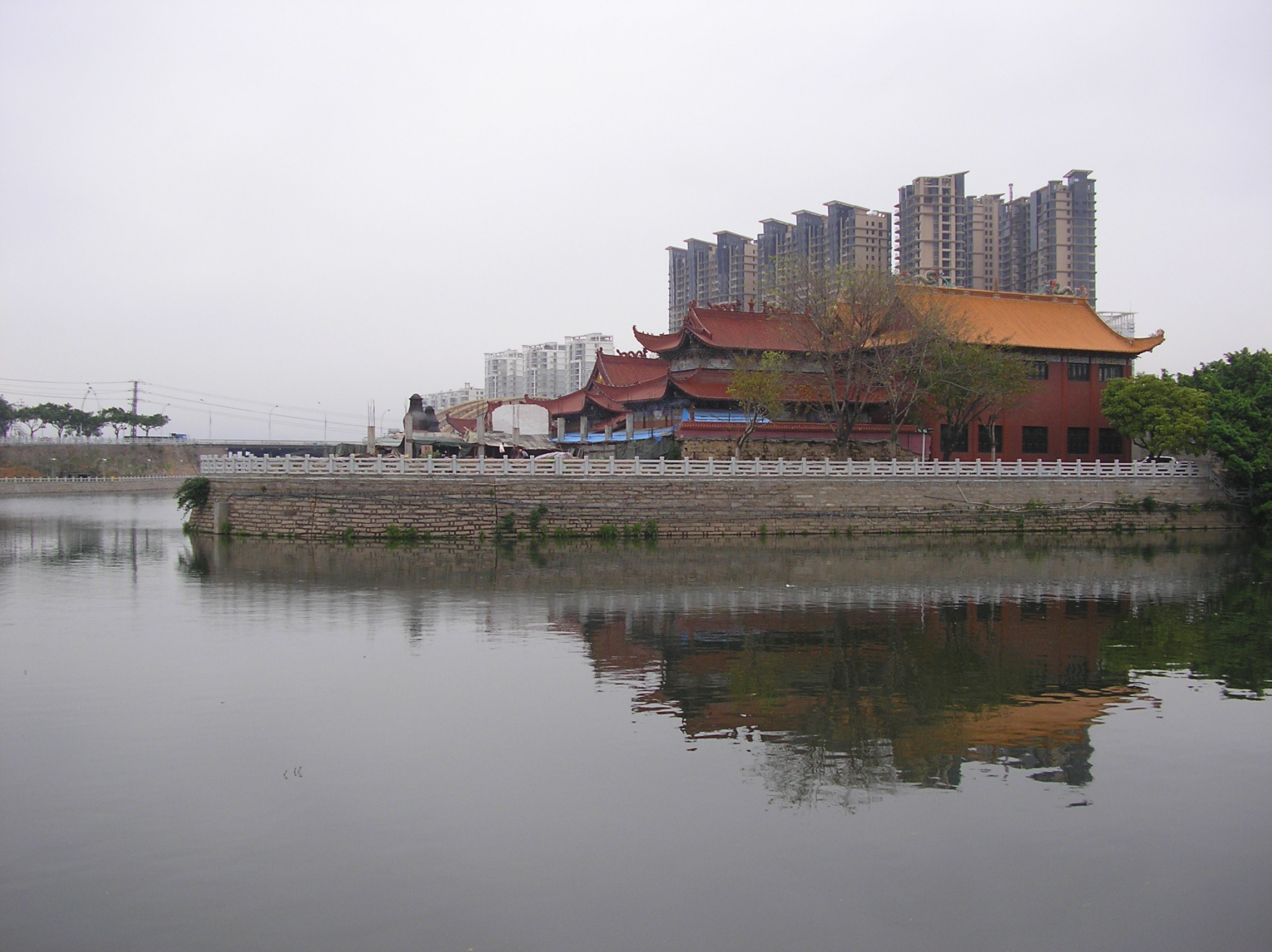 Fuqing city, Fujian province, China